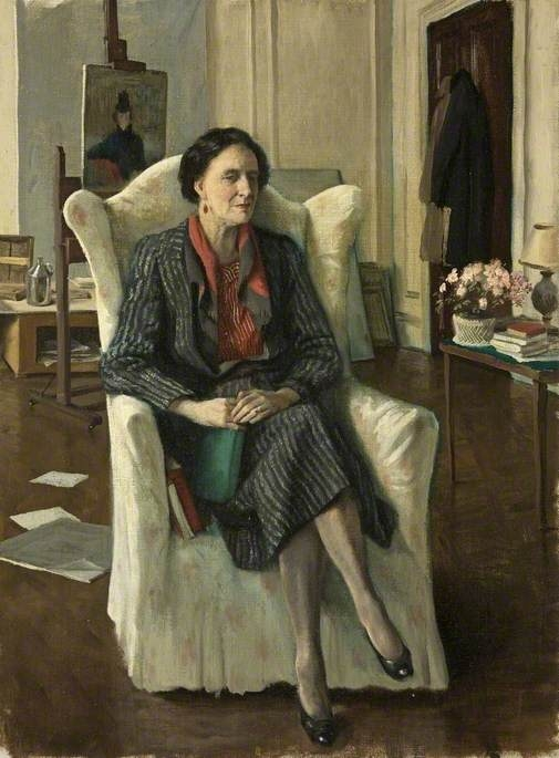 Edith Olivier (1872–1948), First Lady Mayor of Wilton